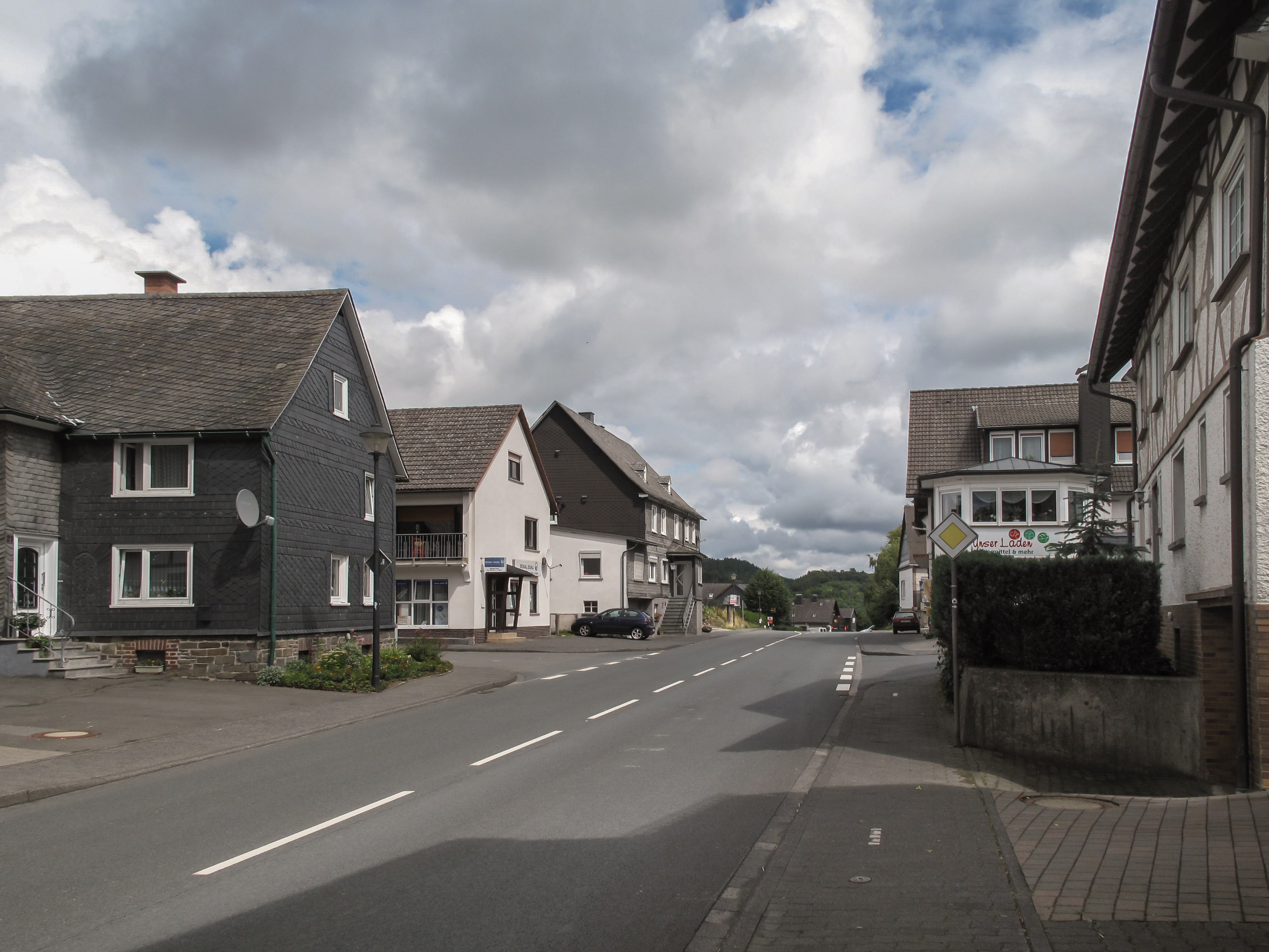 Dotzlar, view to a steet